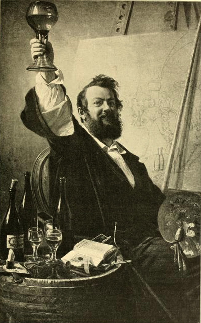 Reproduction of the painting „Self-portrait at the easel“, Height: 161 cm (63.3 ″); Width: 102 cm (40.1 ″) dimensions QS:P2048,161U174728;P2049,102U174728, Stadtmuseum Düsseldorf